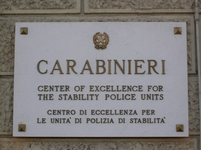 coespu plaque